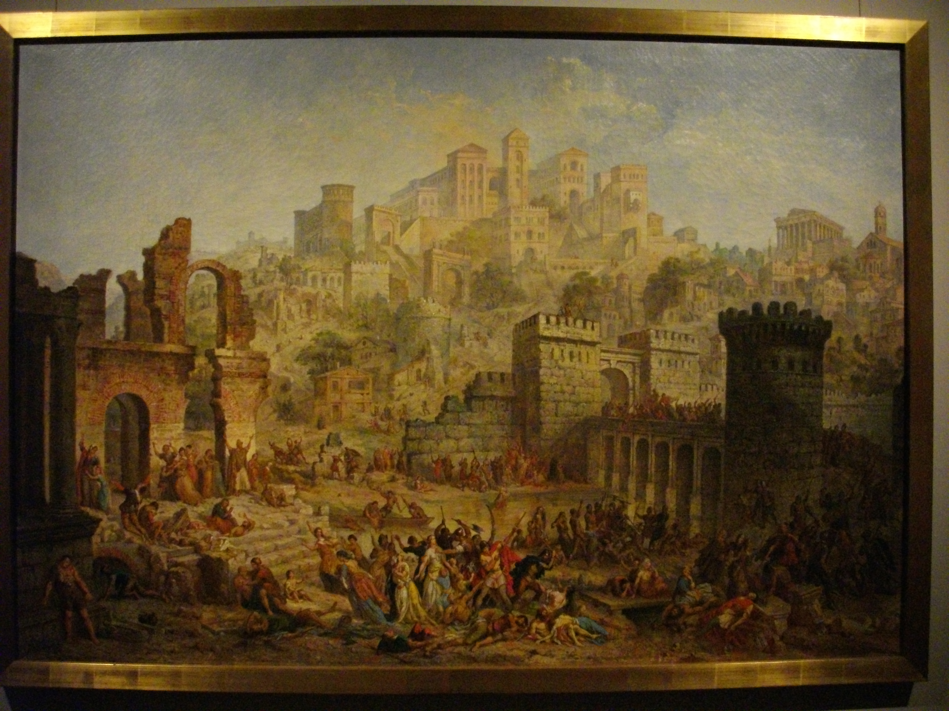 Massacre of Jews in Metz by the first crusers in 1095, Auguste Migette, 1866, kept in Cour d'Or museums in Metz (Moselle, France)